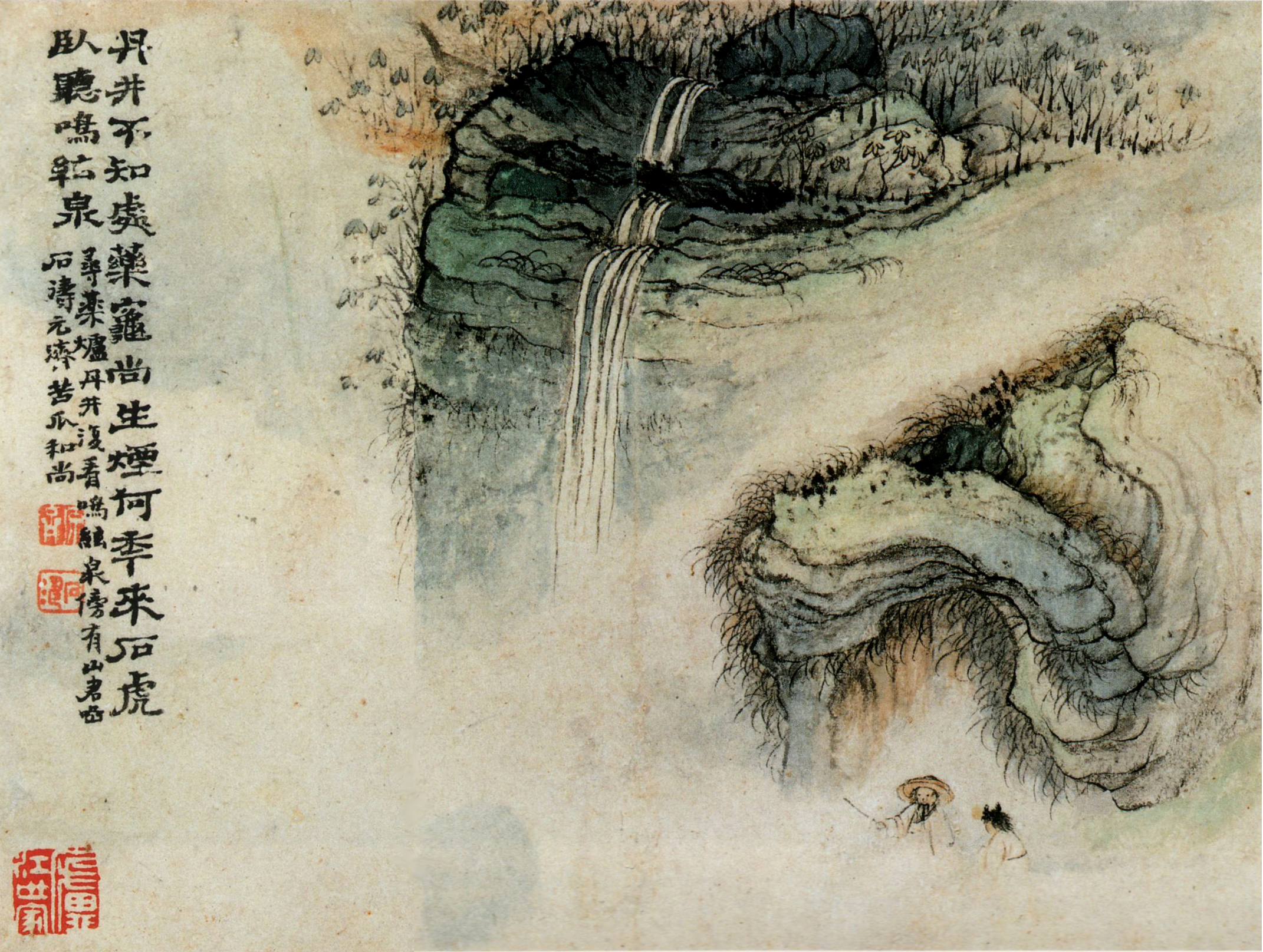 Mingxianquan_and_Hutouyan,hanging scroll,ink and light colors on paper 黄山八勝画冊 第５図 鳴絃泉 虎頭岩, 20 x 26 cm.